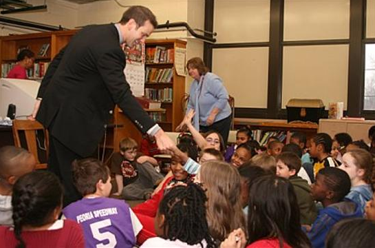 Illinois Congressman Aaron Schock at a school in 2009.